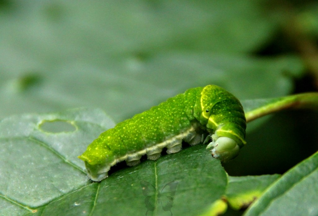 Malabar Banded Peacock (Papilio buddha)